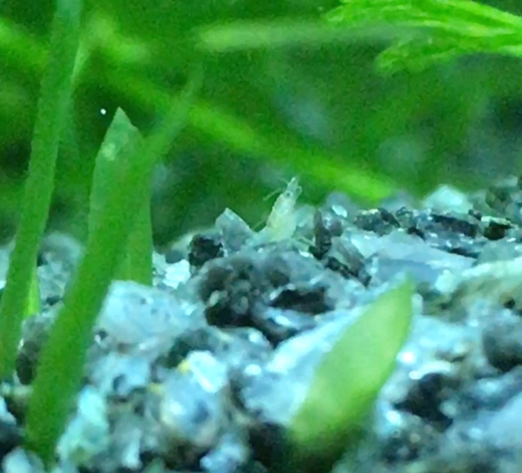 2-days-old Neocaridina davidi (red morph) shrimplet ( ~1mm in length)